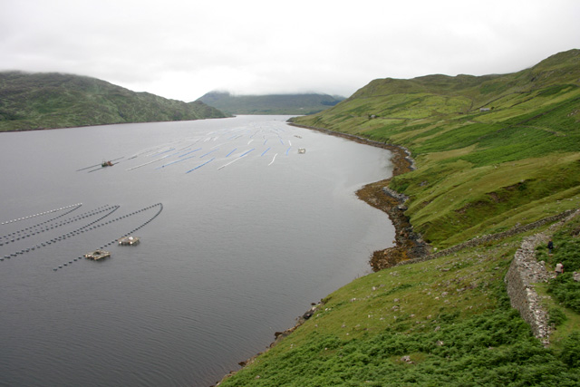 Killary Harbour (it), county Galway and county Mayo, Ireland. Looking south east down Killary Harbour you can see large fish farms stretching along the length of the fjord. To the right of the picture is the 'famine road', built as a kind of poor relief scheme during the Irish famine of 1845-49. Abandoned farm buildings and field systems on the steep sides of the fjord provide further evidence of the events of that time.